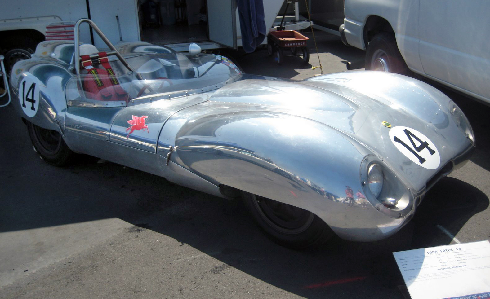 1958 Lotus 15 at the Laguna Seca Historics, 2009.